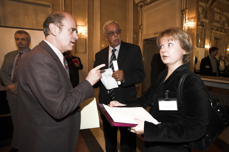 Mathematical Gymnasium Belgrade professors: Srđan Ognjanović (Principal 2008 - ), Zoran Kadelburg (former Dean of Faculty of Mathematics), Ljuba Protić (Principal 2002 - 2004, now Director of State Institute for textbooks "Zavod", [ Zavod]), Svetlana Lana Jakšić (school database admin).